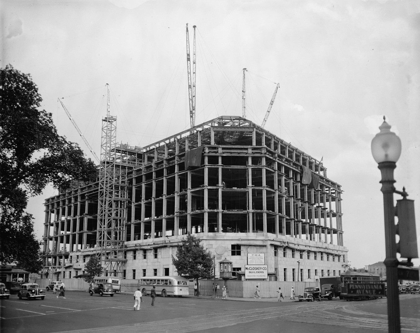 Construction of the Apex building, the future home of the Federal Trade Commission, at the corner of B Street NW (later Constitution Avenue NW) and Pennsylvania Avenue NW in Washington, D.C., in 1937.